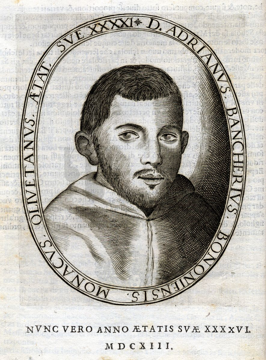 Depicted person: Adriano Banchieri